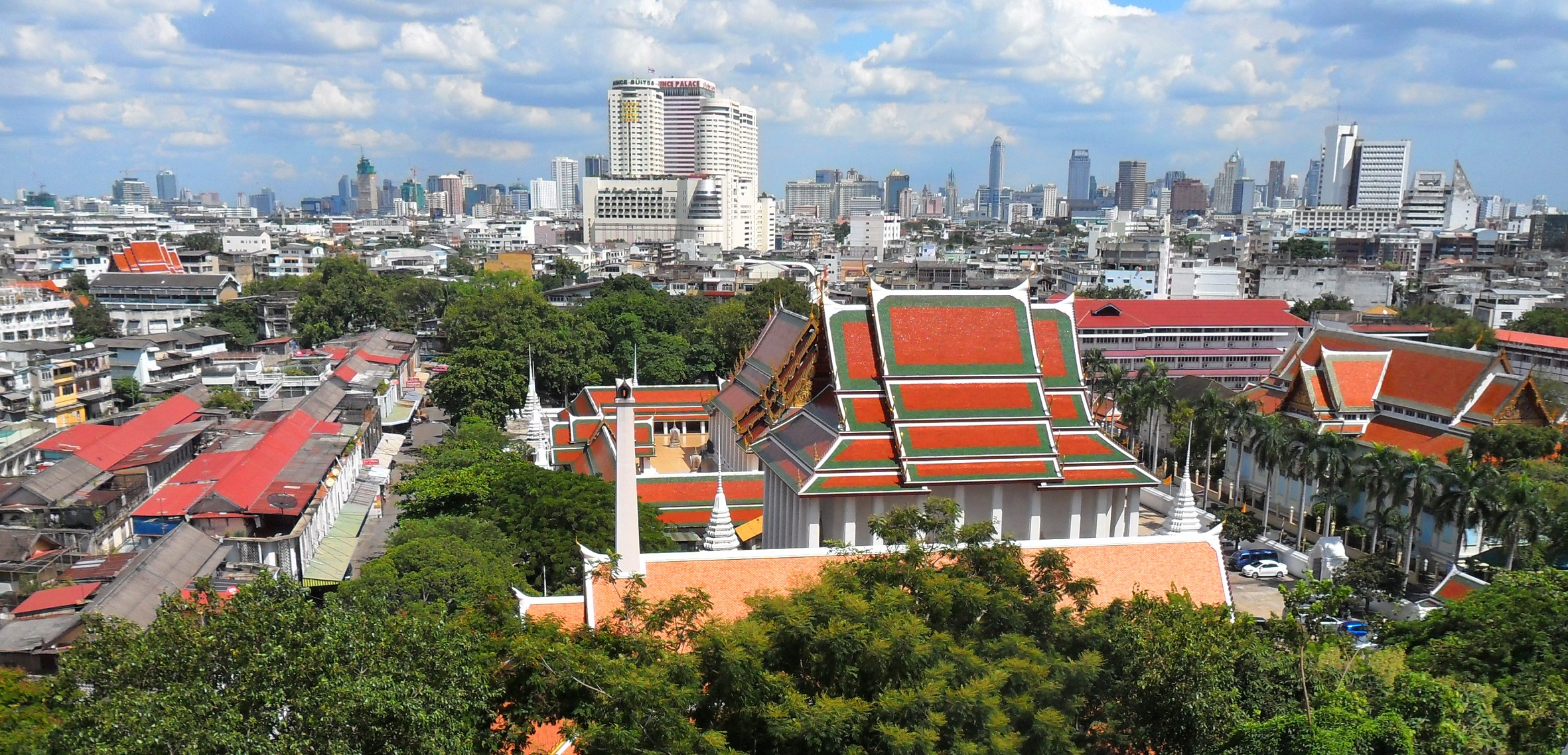 Bangkok, Thailand, view from Golden Mt.